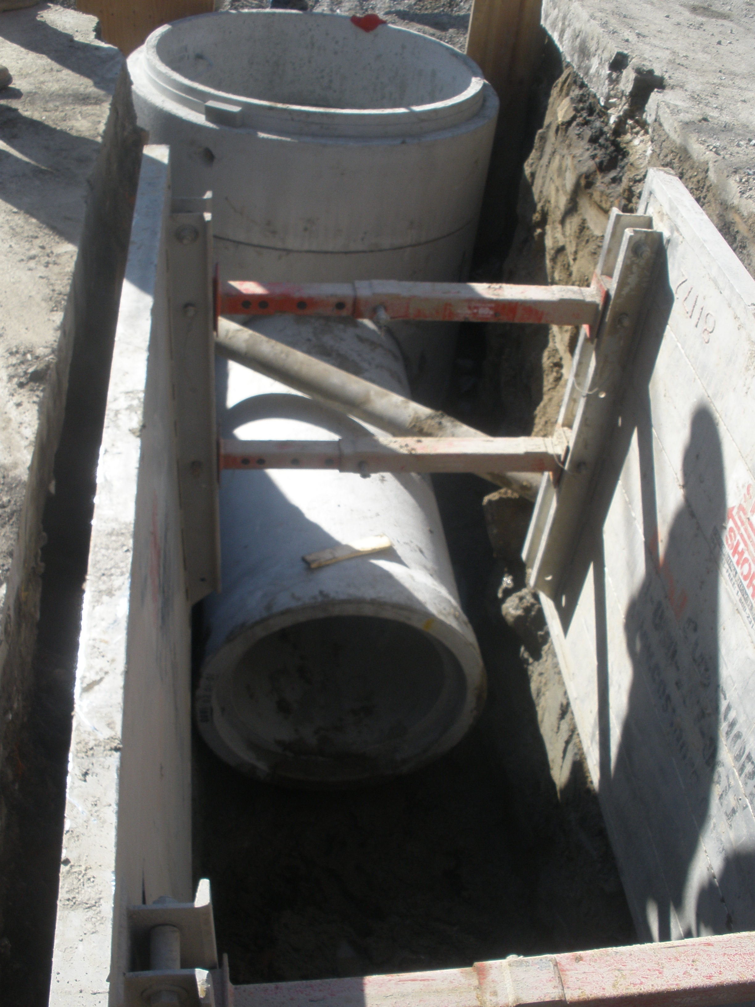 900 mm dia Sewer Installation, Toronto, Kent Road